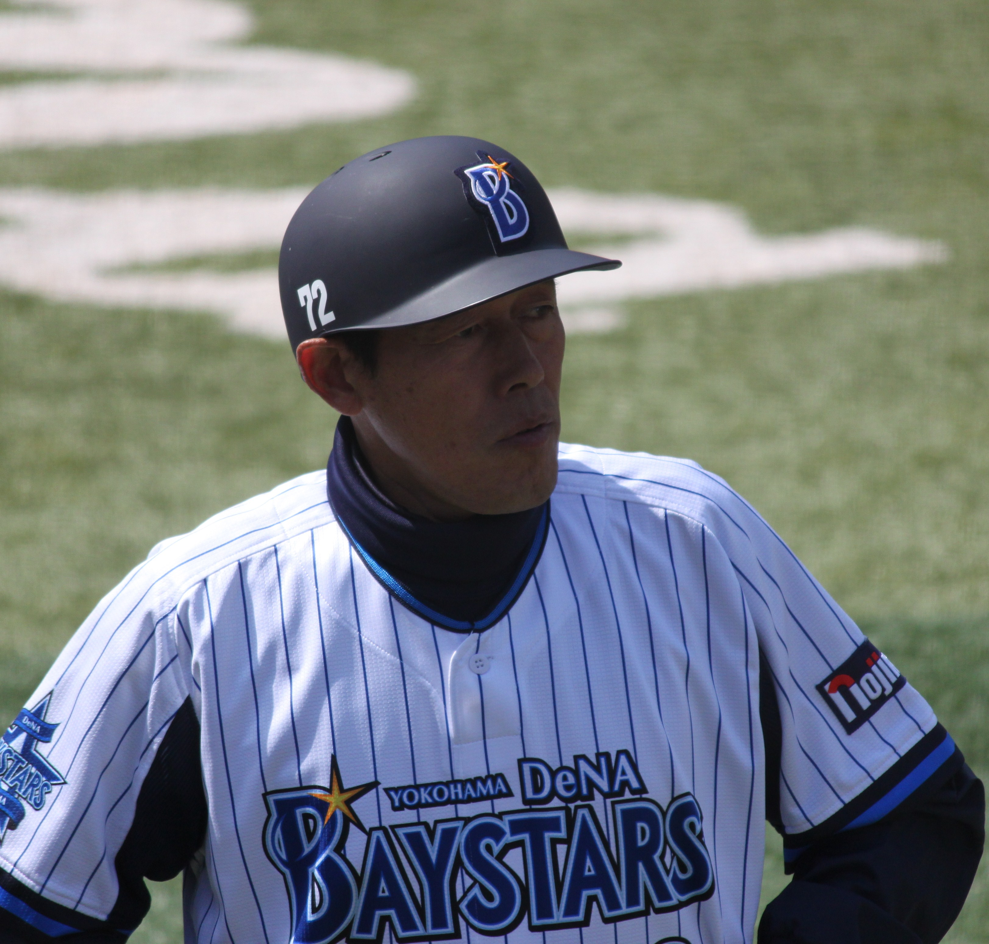 Itaru Ninomiya, coach of the Yokohama DeNA BayStars, at Yokohama Stadium.